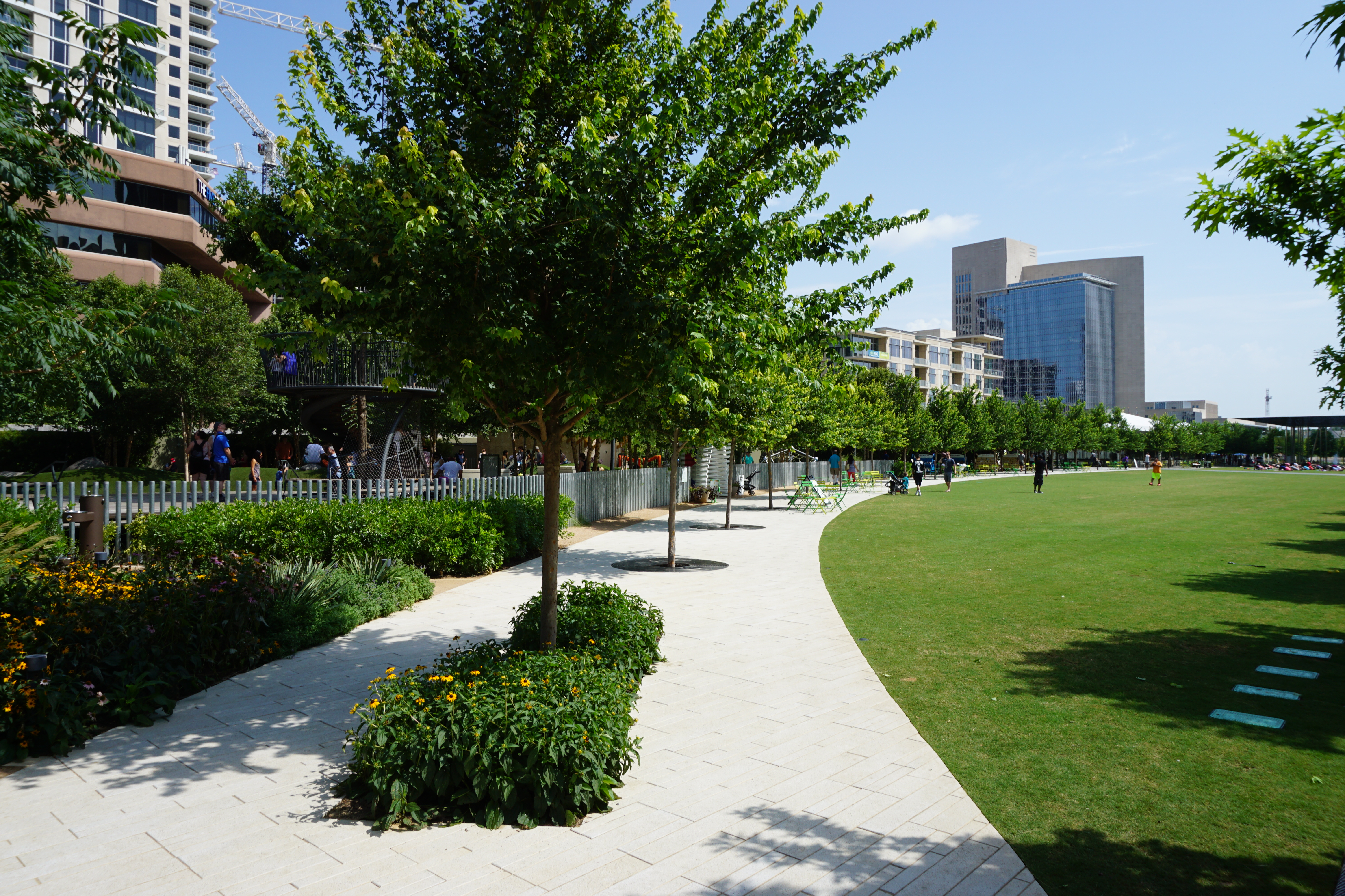 Klyde Warren Park in Dallas, Texas (United States).